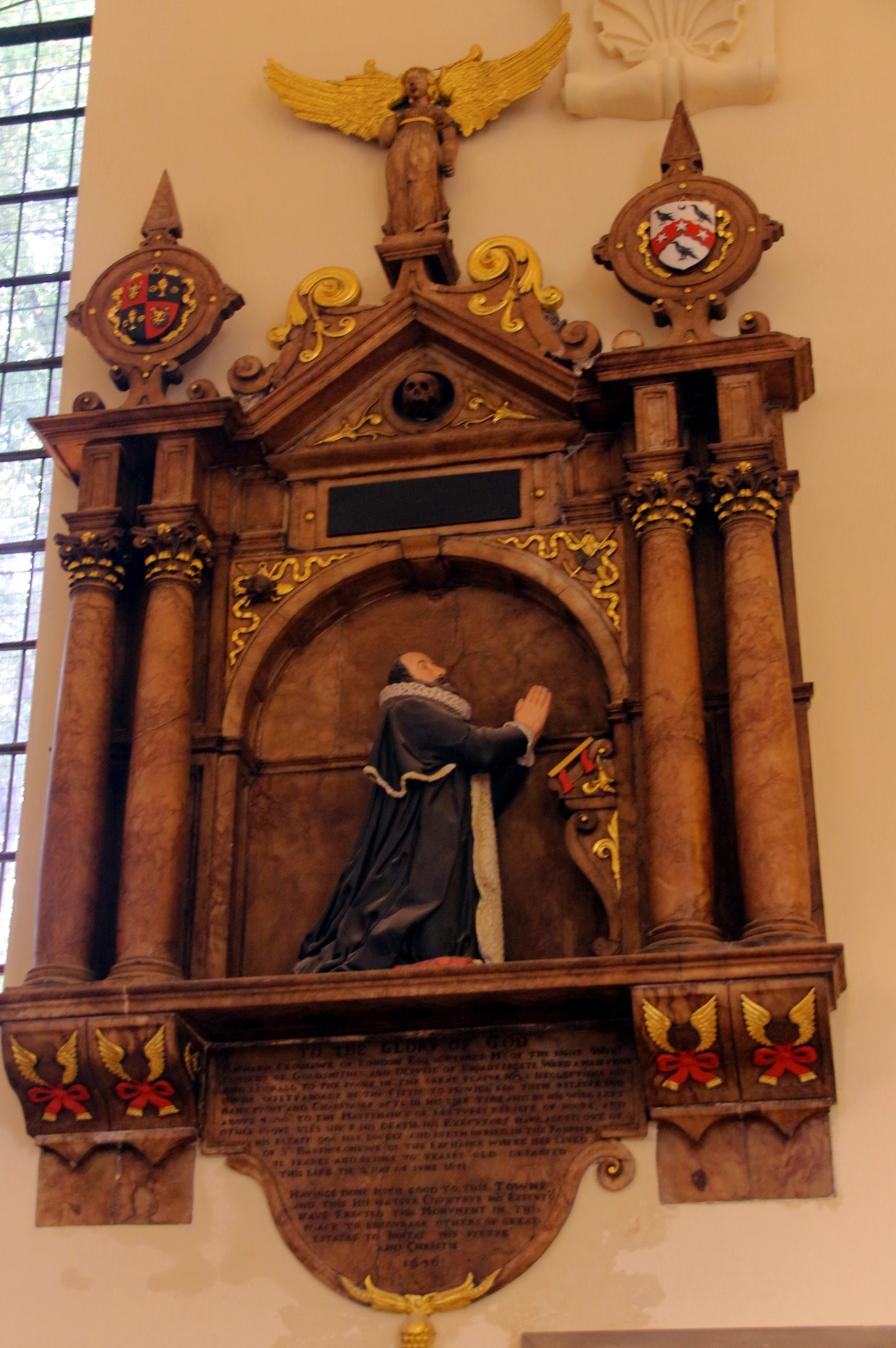 Monument to Richard Croshawe, All Saint's Church (Derby Cathedral). Information taken from Per John Stow (A Survey of the Cities of London and Westminster, Borough of Southwark,)[1]: Richard Croshawe, Goldsmith; an Account of his Benefactions, the Inscription upon his Monument in the Church of All Saints, Derby, will declare: From the Visitation Book of Derbyshire, by Sir William Dugdale, Knight, viz. Upon a large Monument, erected for Richard Croshawe, a Wealthy Goldsmith in London: Who was a Smith's Son at Marketon juxta Derbie. "To the Glory of God. RICHARD CROSHAWE, of London, Esquire, sometime Master of the Right Worshipful Company of Goldsmiths, and Deputy of Broadstreet Ward: A Man pious and liberal to the Poor in the great Plague, 1625. Neglecting his own Safety, abode in the City, to provide for their Relief. Did many Pious and Charitable Acts in his Lifetime: And by his Will, left above 4000£. to the Maintenance of Lectures, Relief of Poor, and other Pious Uses." "Since his Death, his Executors have added out of his Estate 900£. He dwelt, and lyeth buried in his Parish of St. Bartholomew, by the Exchange; where he lived Thirty One Years: And being Seventy Years Old, departed this Life the 2d of June, 1631. Having done much Good to this Town, and this his Native Country, his Executors have erected his Monument in this Place, to encourage others of great Estate to imitate his Piety and Charity, 1636." Two shields of arms are shown above, that on the dexter the arms of the Worshipful Company of Goldsmiths. The shield at sinister dexter displays Argent, on a chevron engrailed gules between three Cornish choughs as many mullets of the first a crescent for difference (Glover, Stephen, History and Gazetteer of the County of Derby, Derby, 1833, p.493)